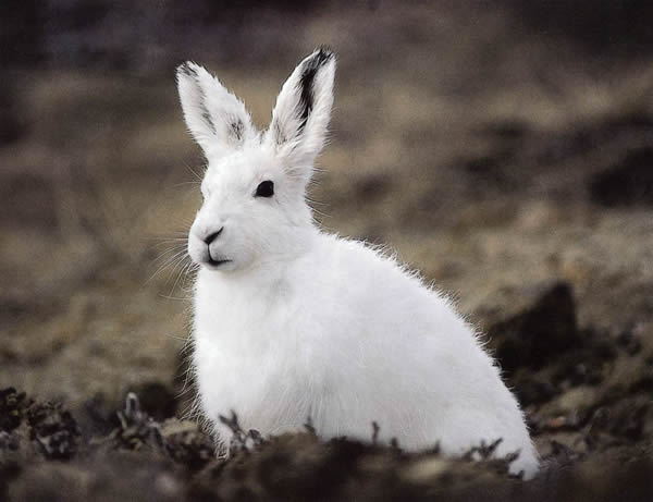 arctic hare